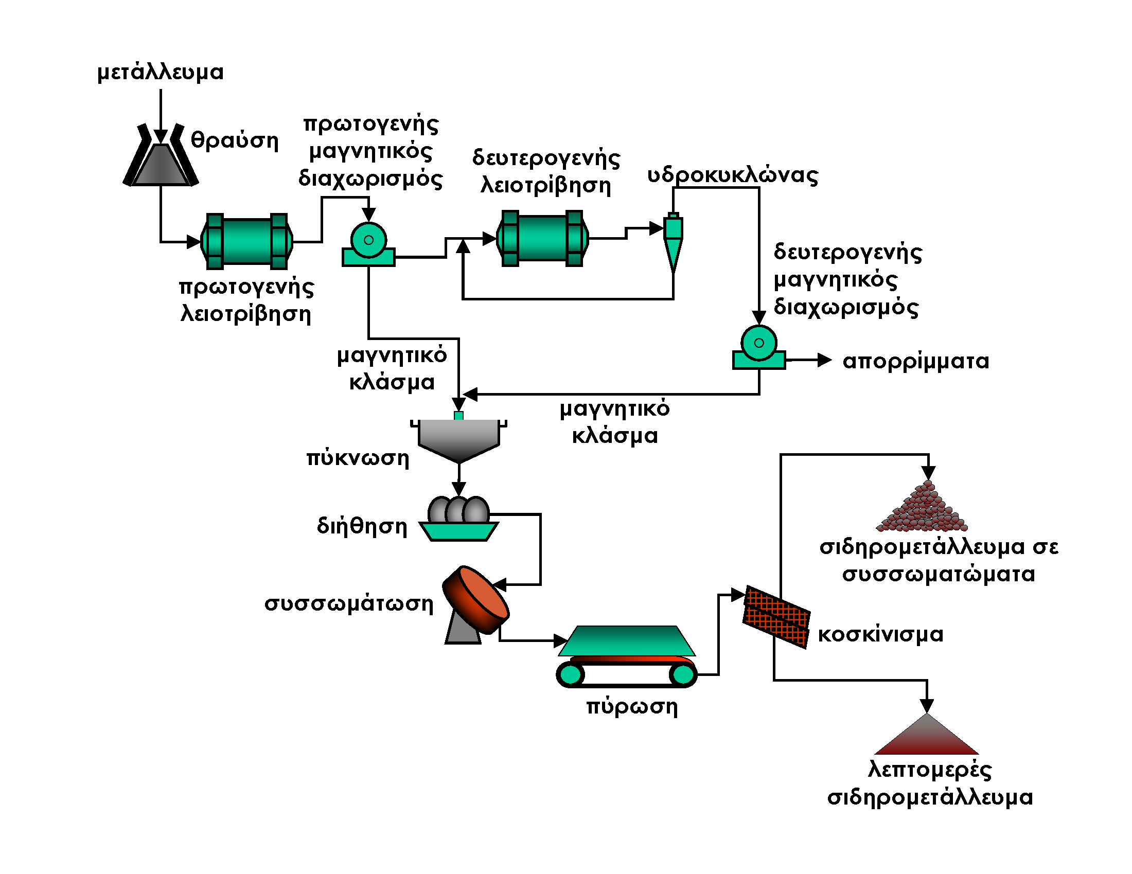 Iron ore processing